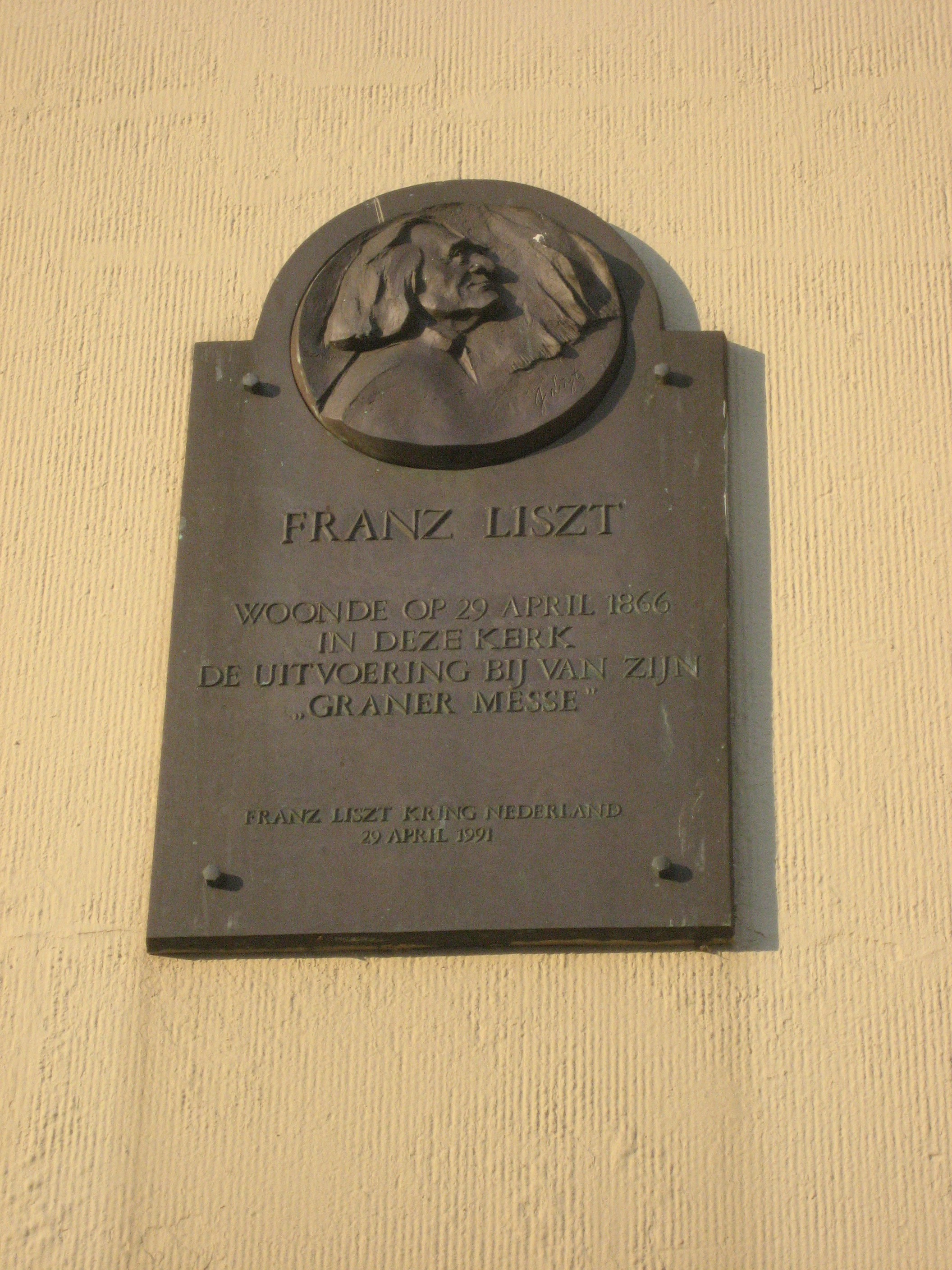 Plaque: Franz Liszt listened to his Graner Messe in this church (Mozes en Aäronkerk in Amsterdam) (29 April 1866)